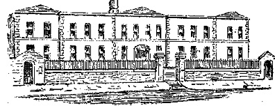 Drawing of the Mendicity Institution, Dublin, dated 1890, now in the public domain.